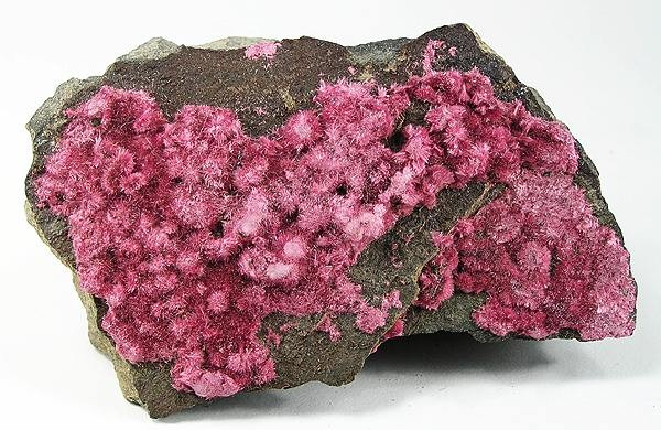 Erythrite Locality: Mt Cobalt Mine, Selwyn District, Mt Isa - Cloncurry area, Queensland, Australia (Locality at ) Size: 11.5 x 7.9 x 3.6 cm. At this Australian locality, the erythrite formed as a carpet of radiating balls of tiny hair-like crystals, with deep pink color from the cobalt content. Ex. James Minette Collection.